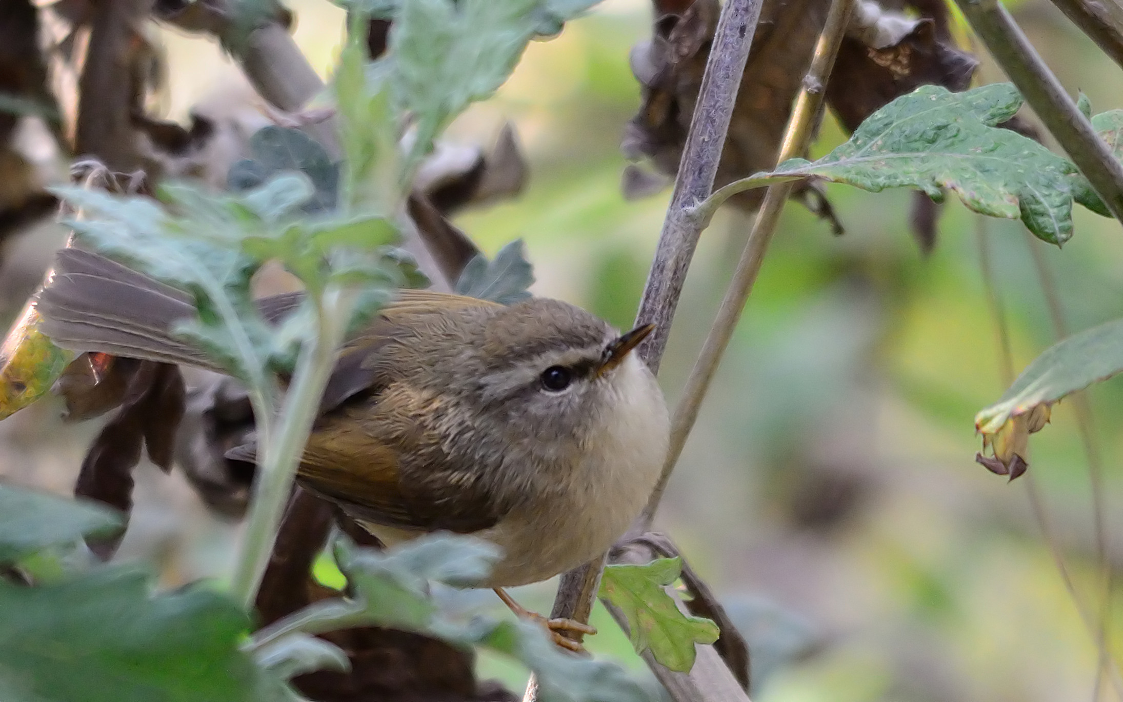 Hume's bush warbler (Horornis brunnescens) at Walong, Arunachal Pradesh, India